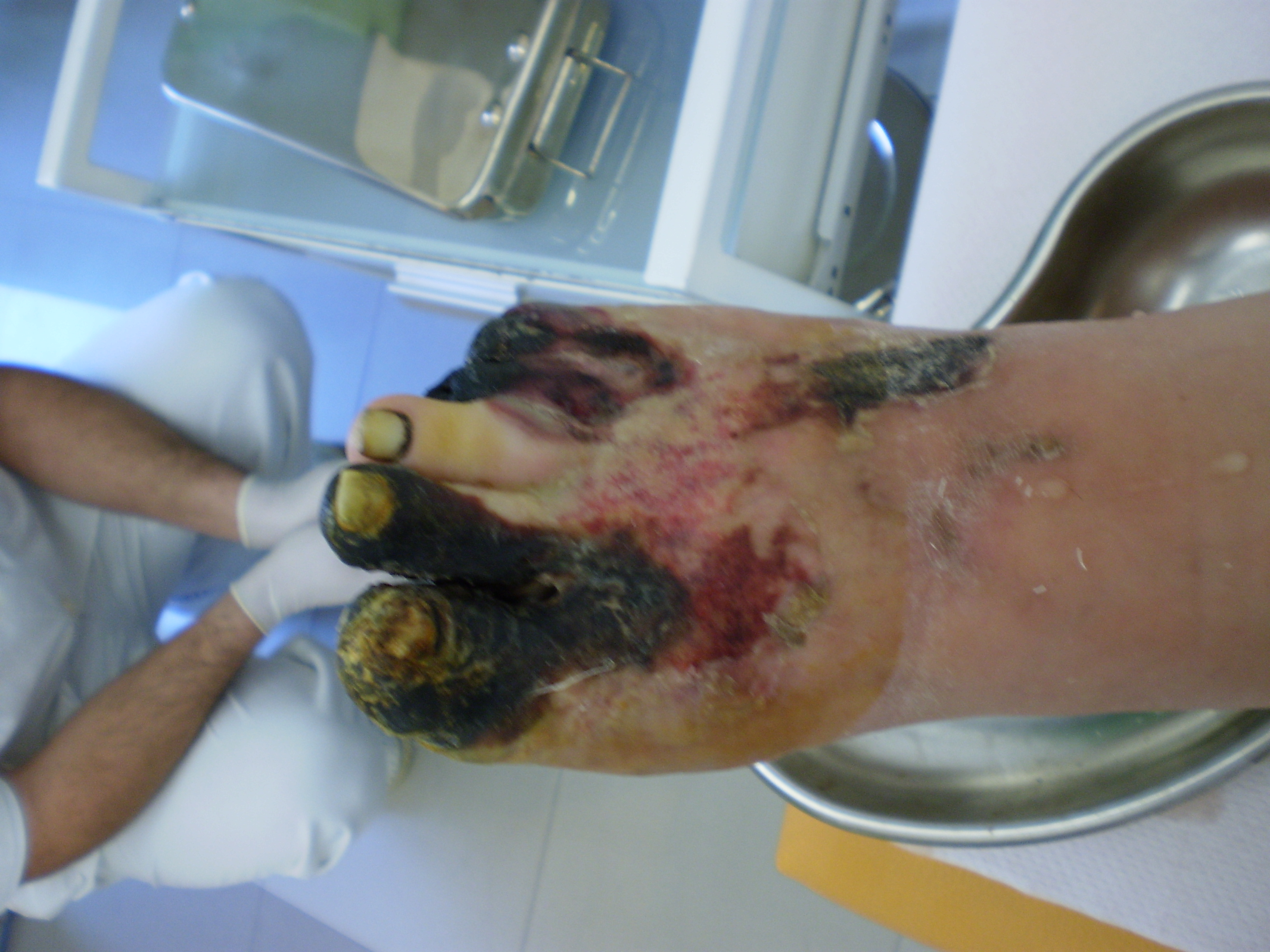 Chronic wound